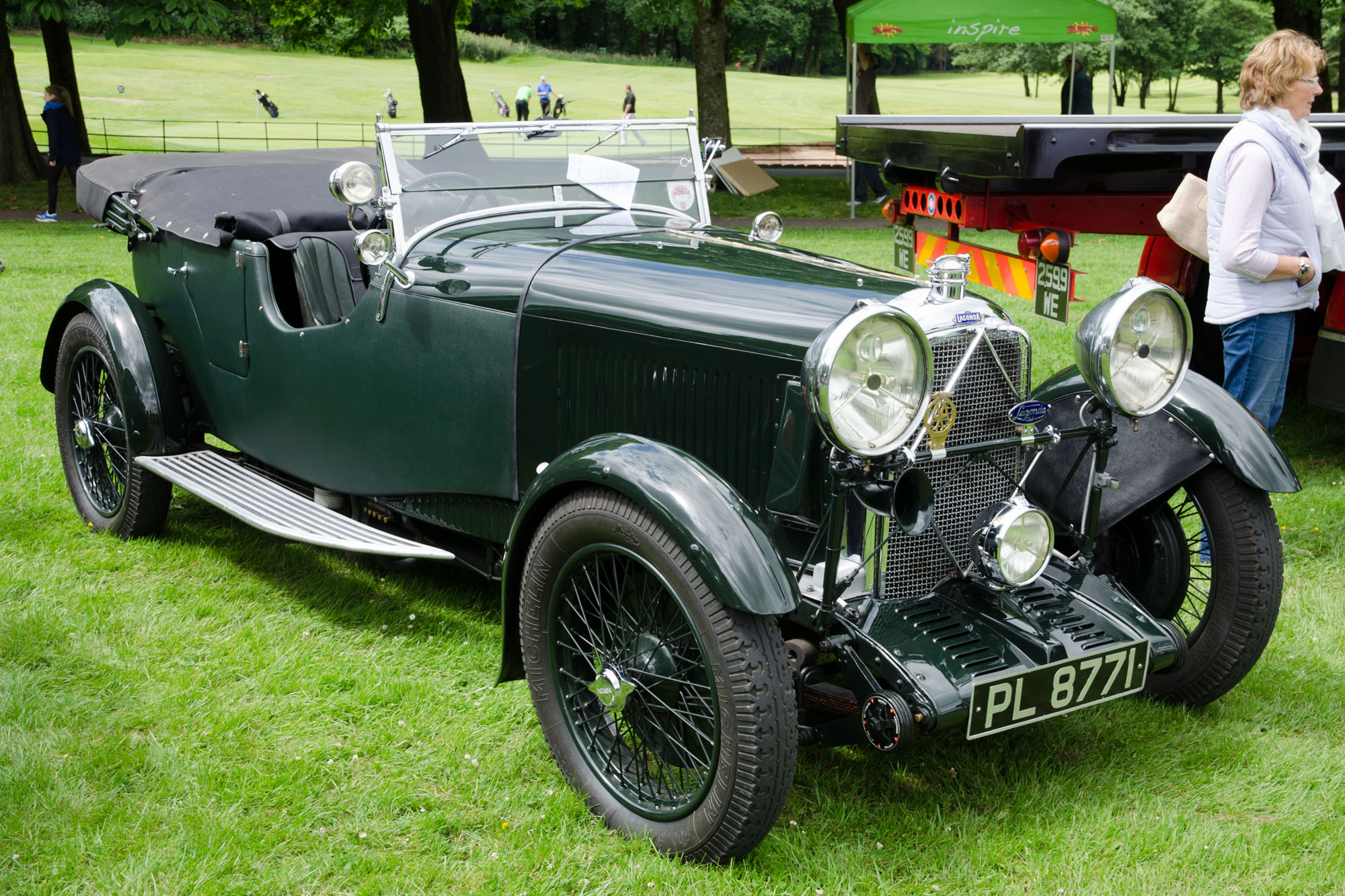 1931 Lagonda 2 Litre Supercharged Tourer (DVLA) first registered 8 June 1931 1954 cc Burnley Classic Car Show at Towneley Park 29/06/2014